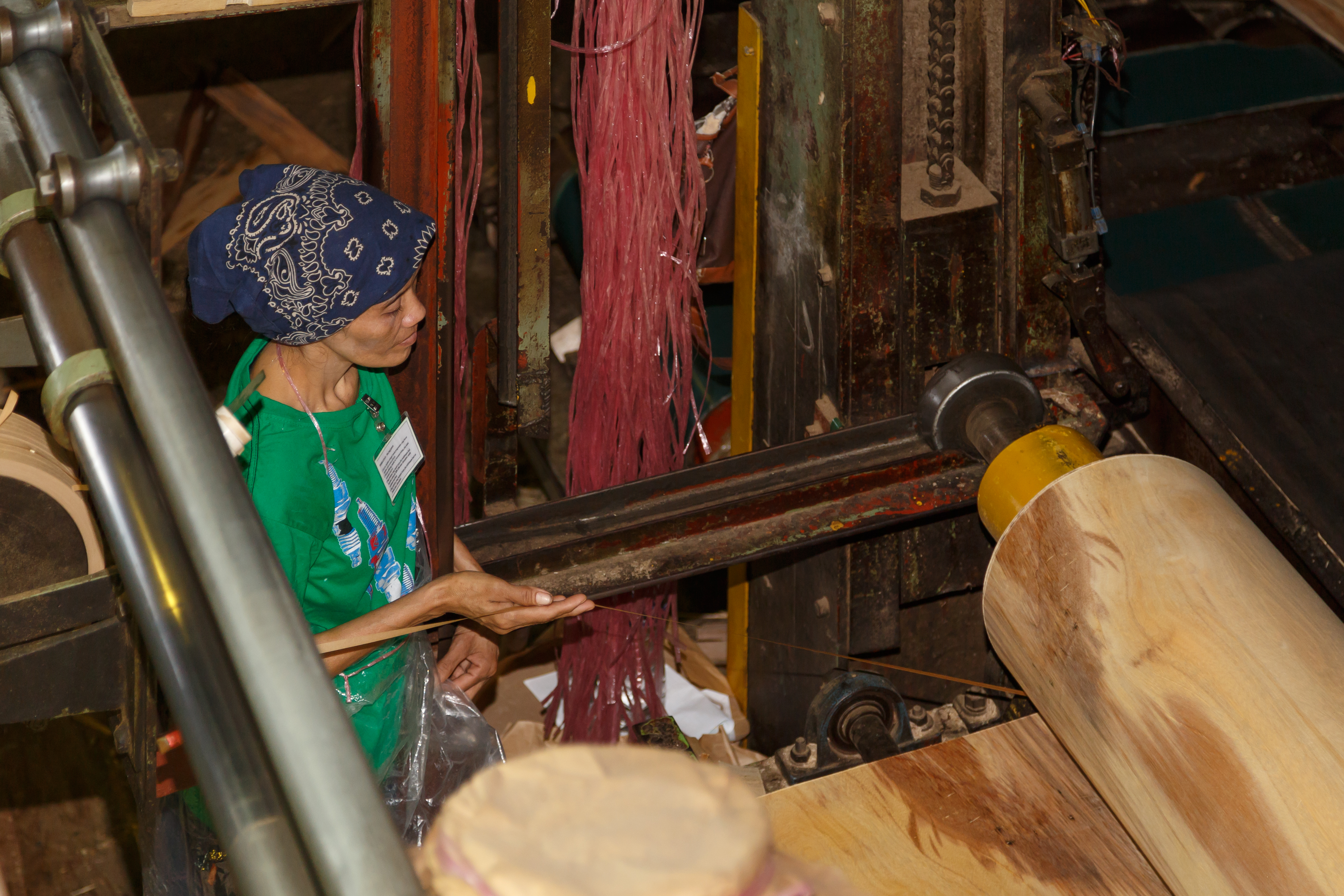 Sandakan, Sabah: Plywood Factory; A worker at the veneer outlet of the TAIHEI Veneer Peeling Lathe